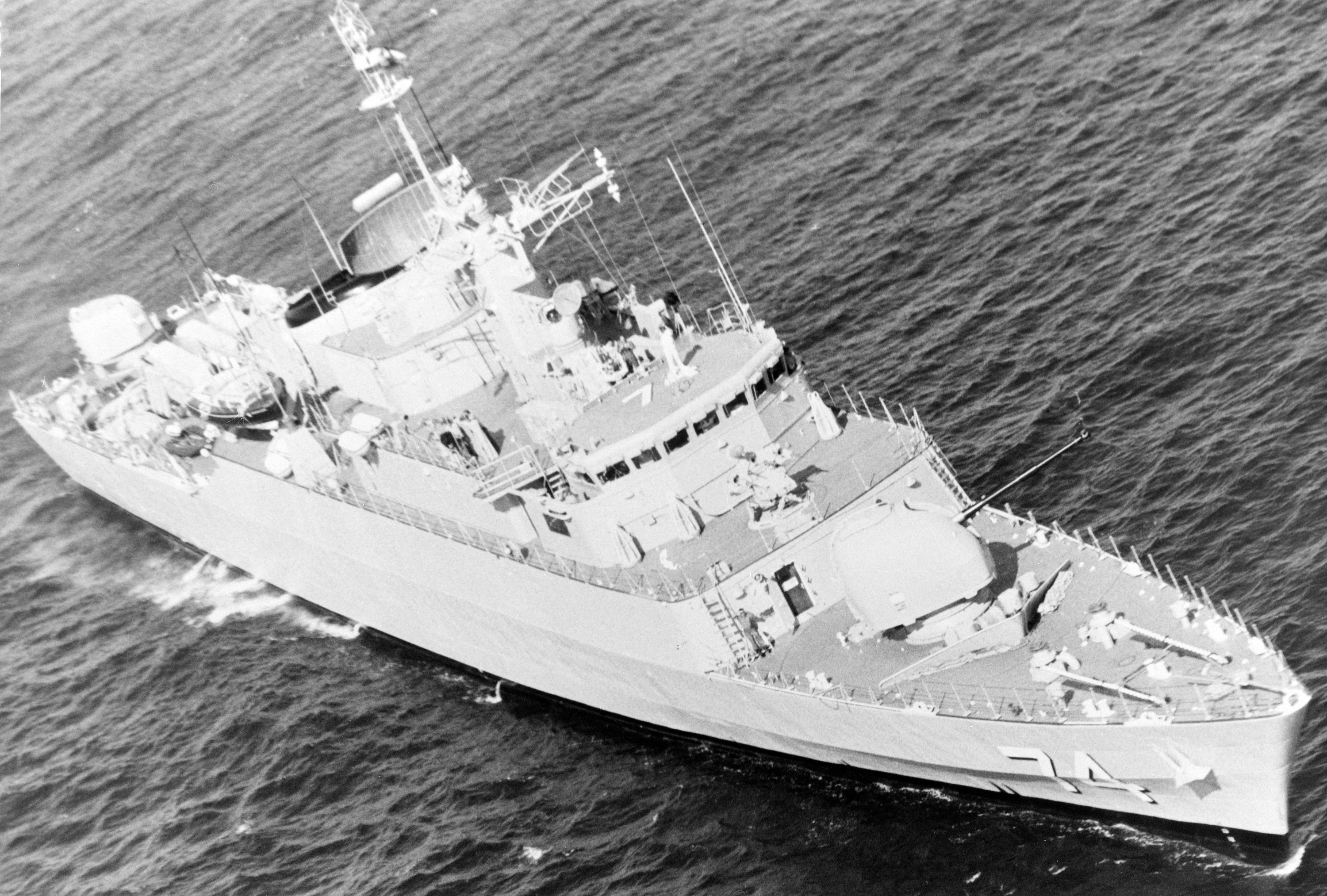 A starboard bow view of the Iranian destroyer escort ITS FARAMARZ (DE 74), now redesignated the frigate IS SAHAND (F 74). NOTE: This vessel was sunk on 19 April 1988 by aircraft CVW 11 from the aircraft carrier USS ENTERPRISE (CVN 65) in retaliation for the mining of the USS SAMUEL B. ROBERTS (FFG 58) in the Persian Gulf. The vessel was hit by three Harpoon missiles and numerous cluster bomblets.